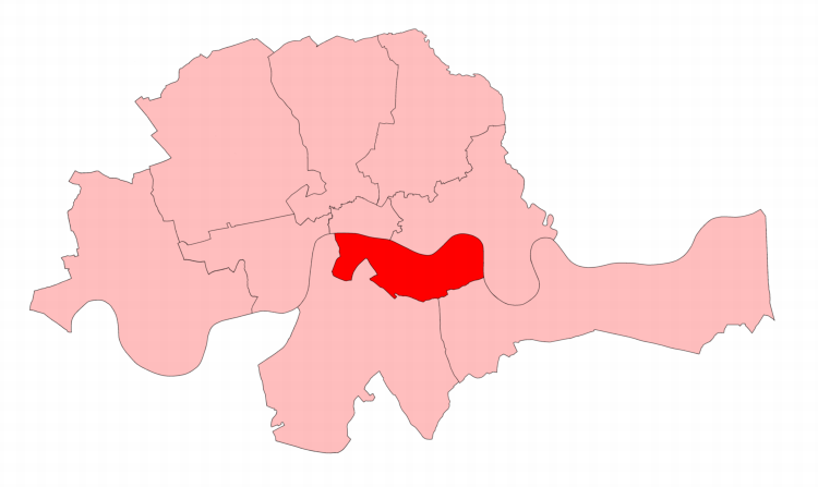 A map of Southwark constituency within the Metropolitan Board of Works area, as it existed from 1868 to 1885.